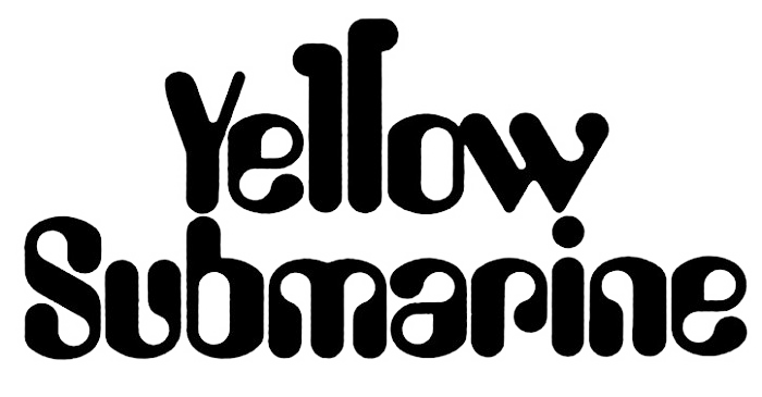 The Beatles Yellow Submarine Logo